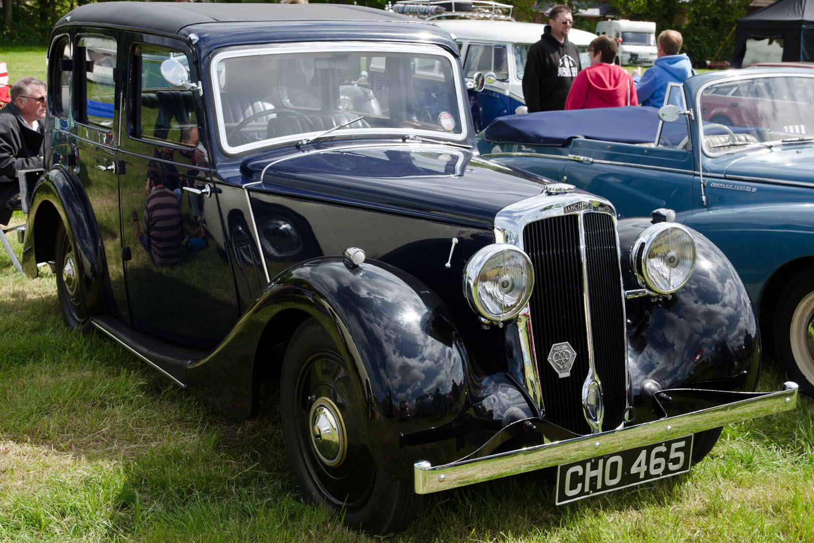 Lanchester Fourteen 1937(DVLA) manufactured 1937, 1527cc Heskin Hall Steam Fair 02/06/2013